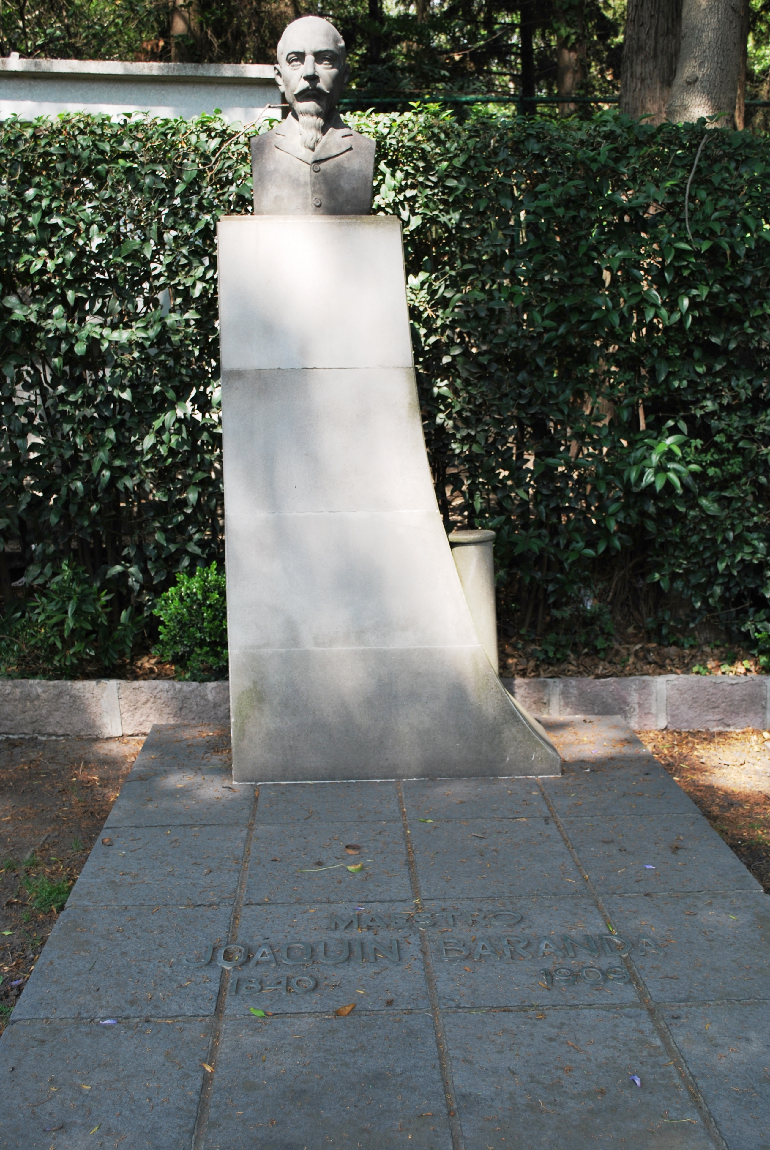 Tomb of Joaquin Baranda in the Panteon Civil de Dolores cemetery in Mexico City